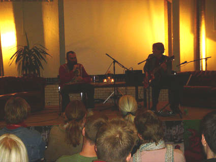 Rune T. Kidde Band, at the Komiks.dk 2006 comics festival in København, Denmark.